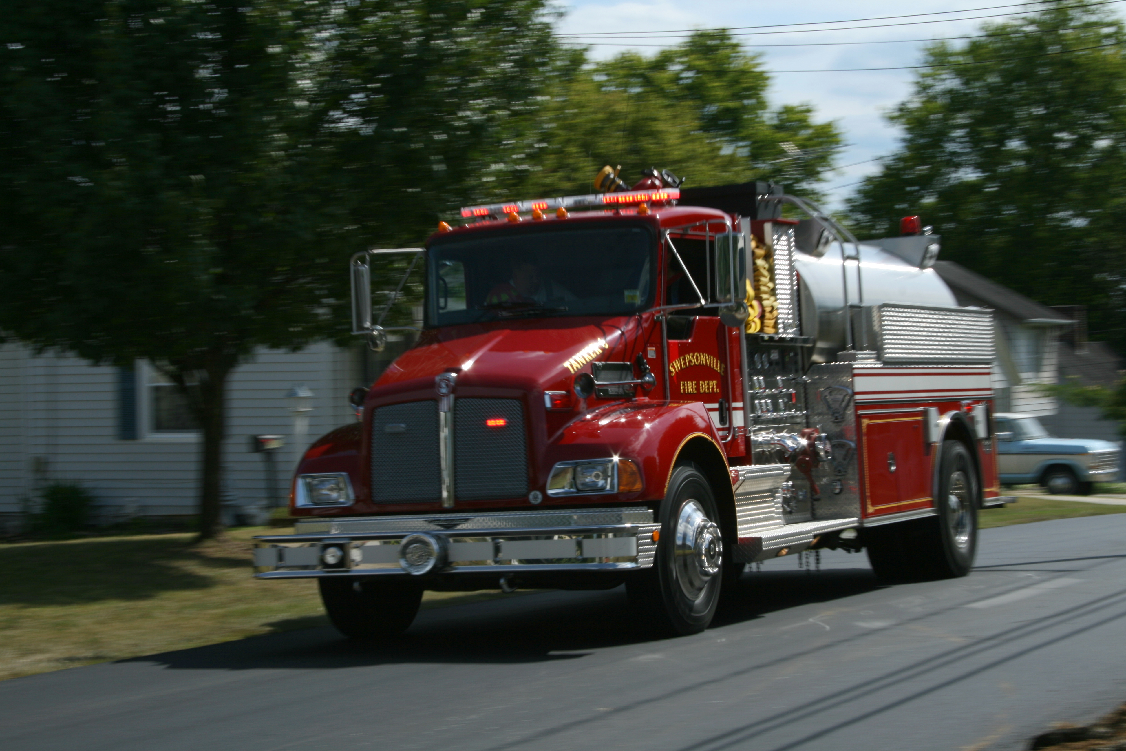 A truck of the Swepsonville volunteer fire department rushing north on East Main Street in Swepsonville, North Carolina.